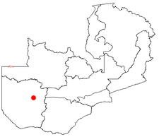 Map: Kaoma, town and district in the Western province of Zambia